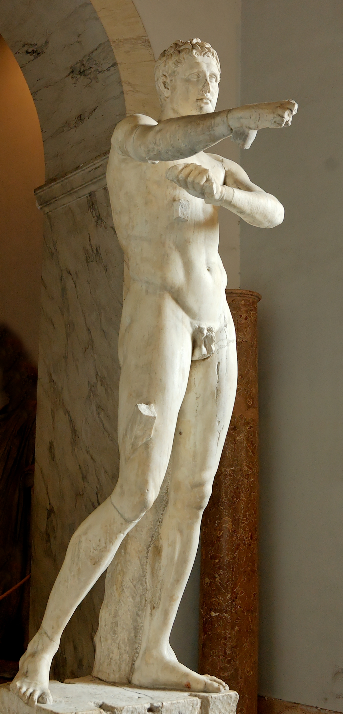 So-called “Apoxyomenos” (“the Scraper”). Marble, Roman copy of the 1st century AD after a Greek bronze original ca. 320 BC. From the Trastevere in Roma.